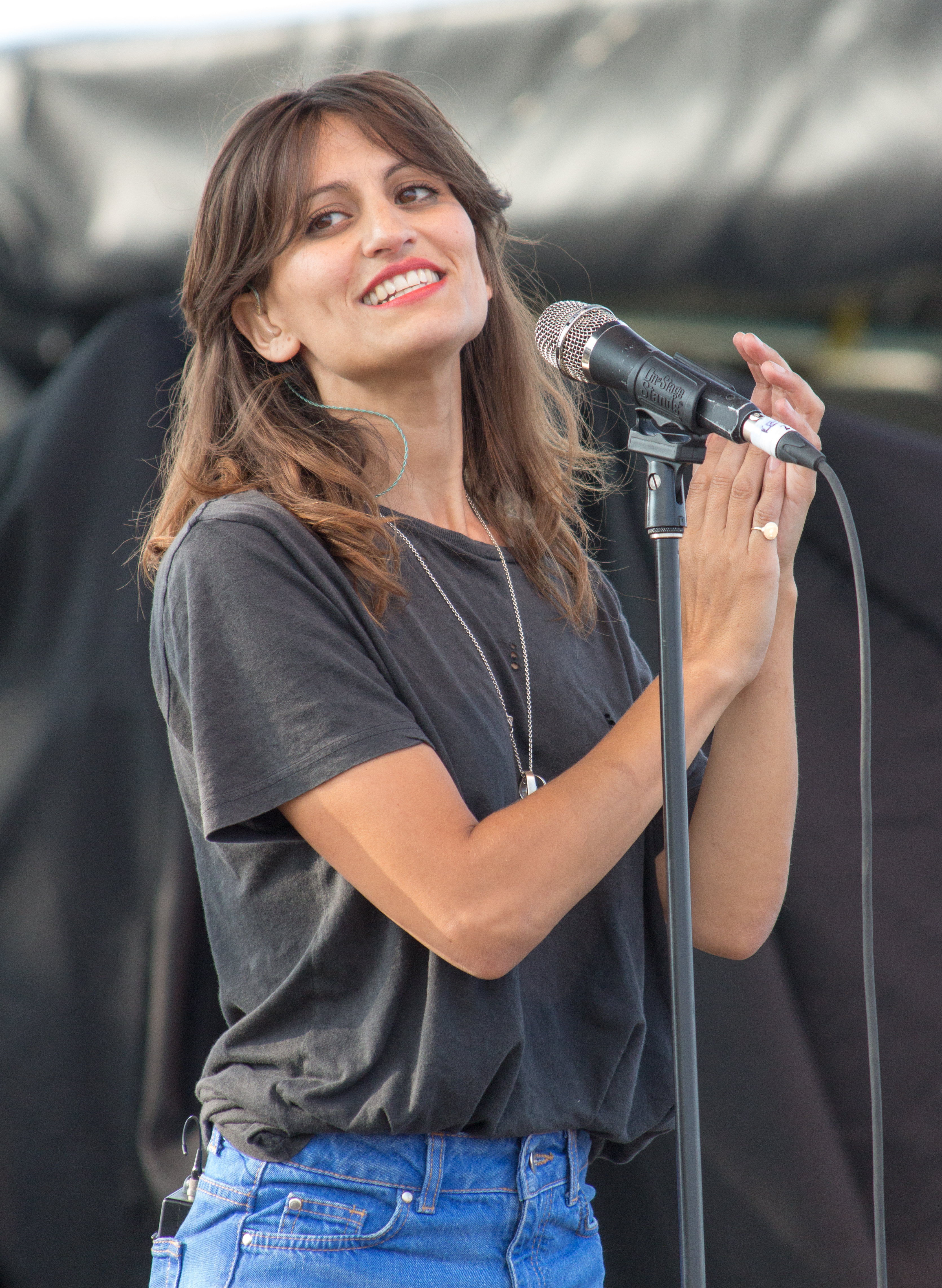 Martina Sorbara of Dragonette performing at the Festival of Friends in Ancaster, ON